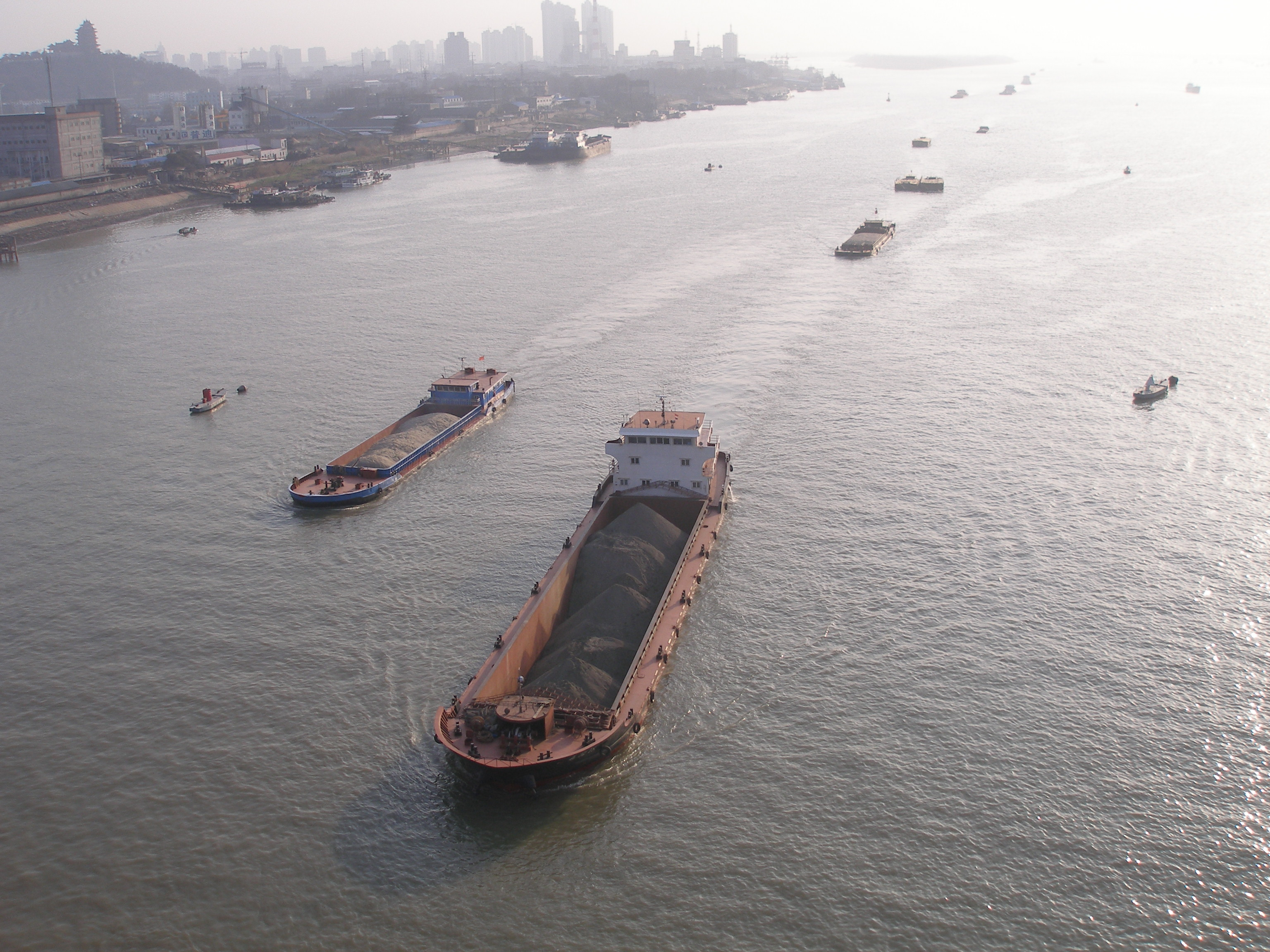 Ships on the Yangtze River in Nanjing